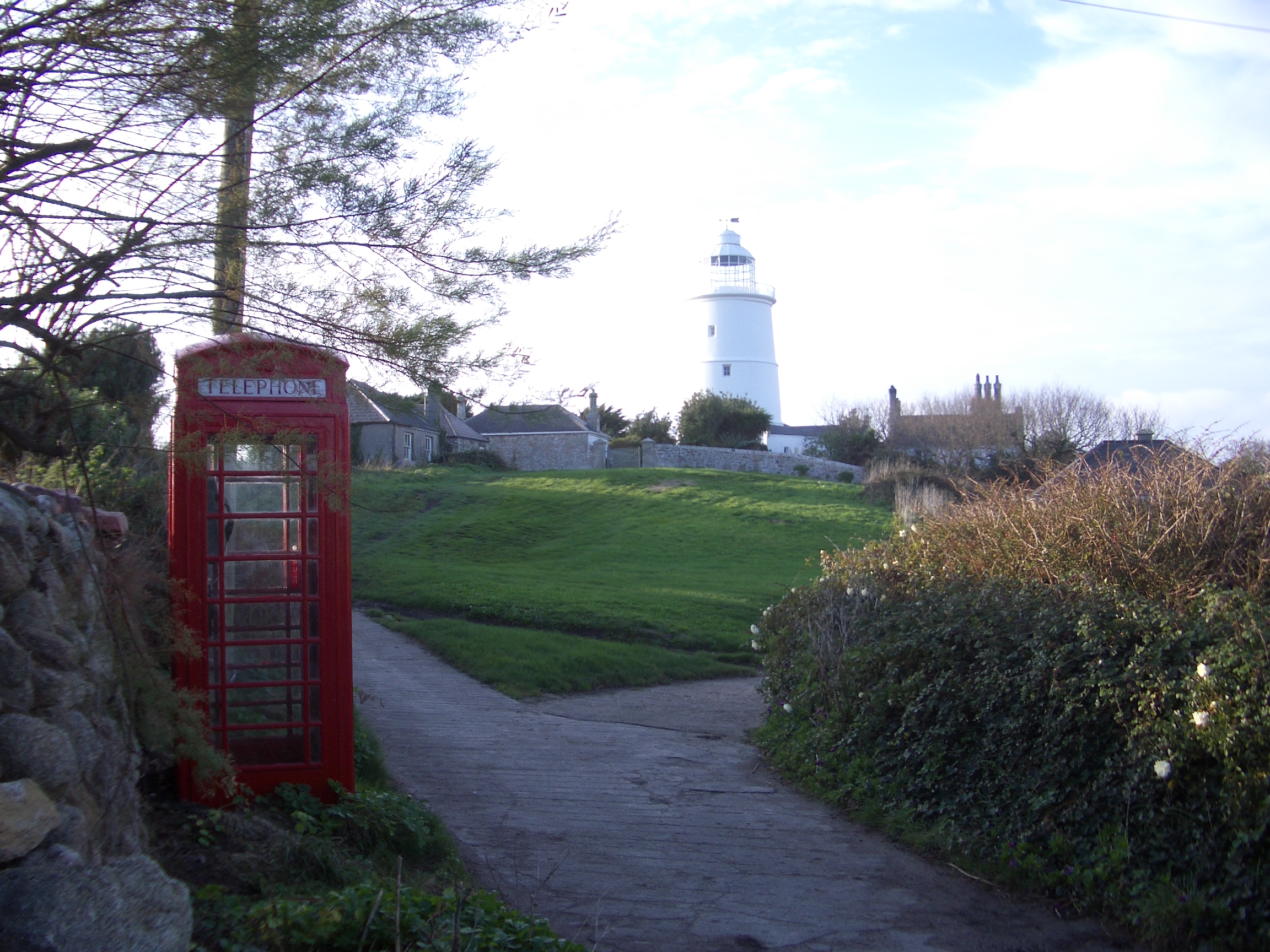 The 1680 lighthouse, St. Agnes, Isles of Scilly.